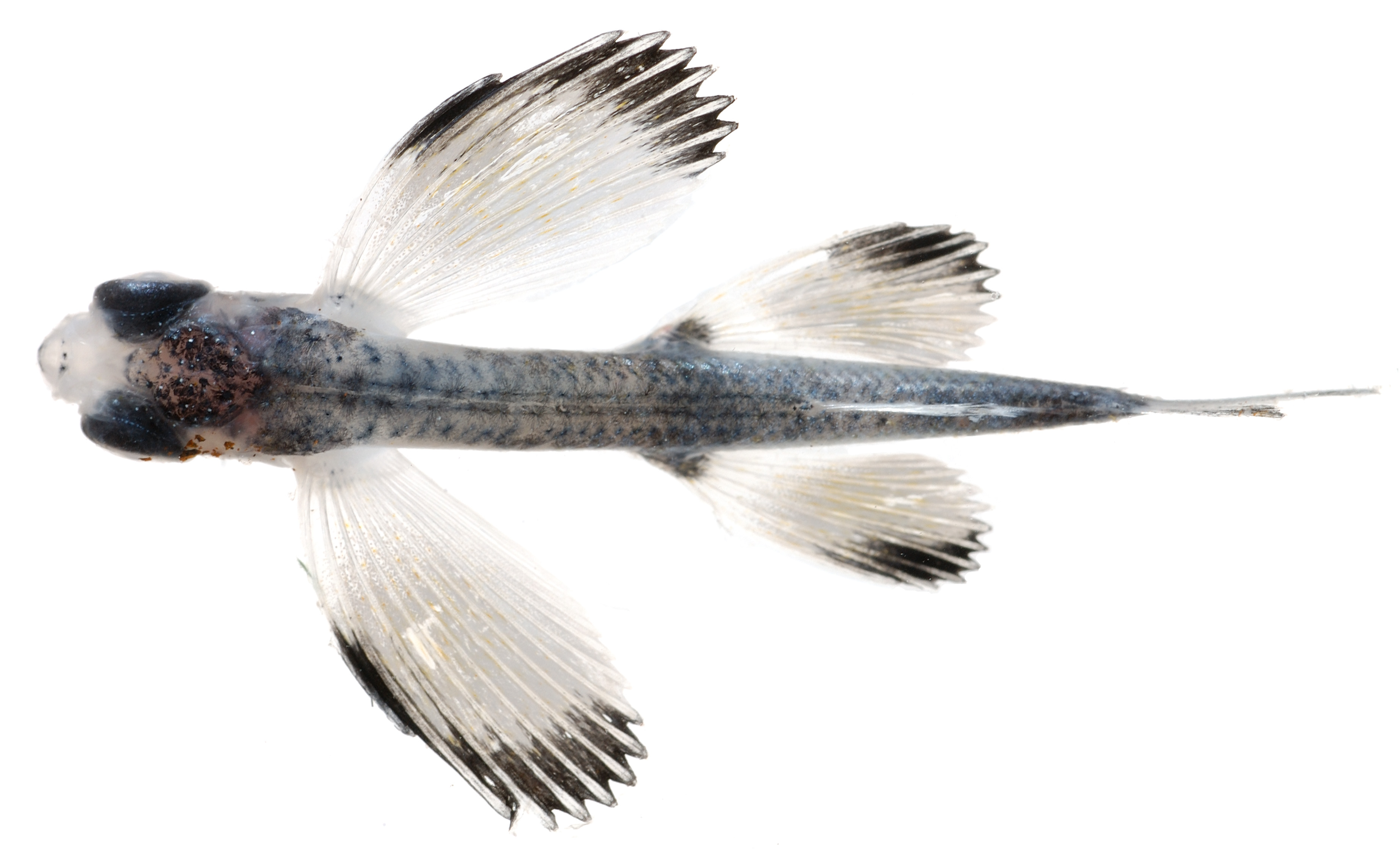 Description: The standard length of the juvenile flying fish is twenty-two millimeters. This image was taken with a Nikon D1X 5.47-megapixel camera with a 105-millimeter f/2.8D AF Micro-Nikkor lens and dual Nikon SB28 flash units. Creator/Photographer: Belize Larval-Fish Group 2004 The Division of Fishes of the Smithsonian's National Museum Natural History has sent several teams to Belize in order to photograph larvae in the field. The 2004 team included Julie H. Mounts and Carole C. Baldwin from February 18 through 25, and David G. Smith, Lee A. Weigt, and Claudette Decourley from February 25 through March 11. Medium: Digital photograph Geography: Belize Date: 2004 Repository: National Museum of Natural History, Division of Fishes Image ID: hirundichthys_juv